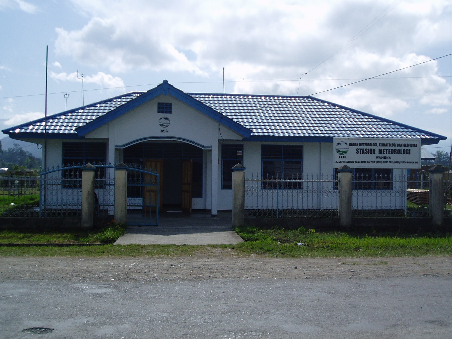 Metorological Station of Wamea, Papua, Indonesia